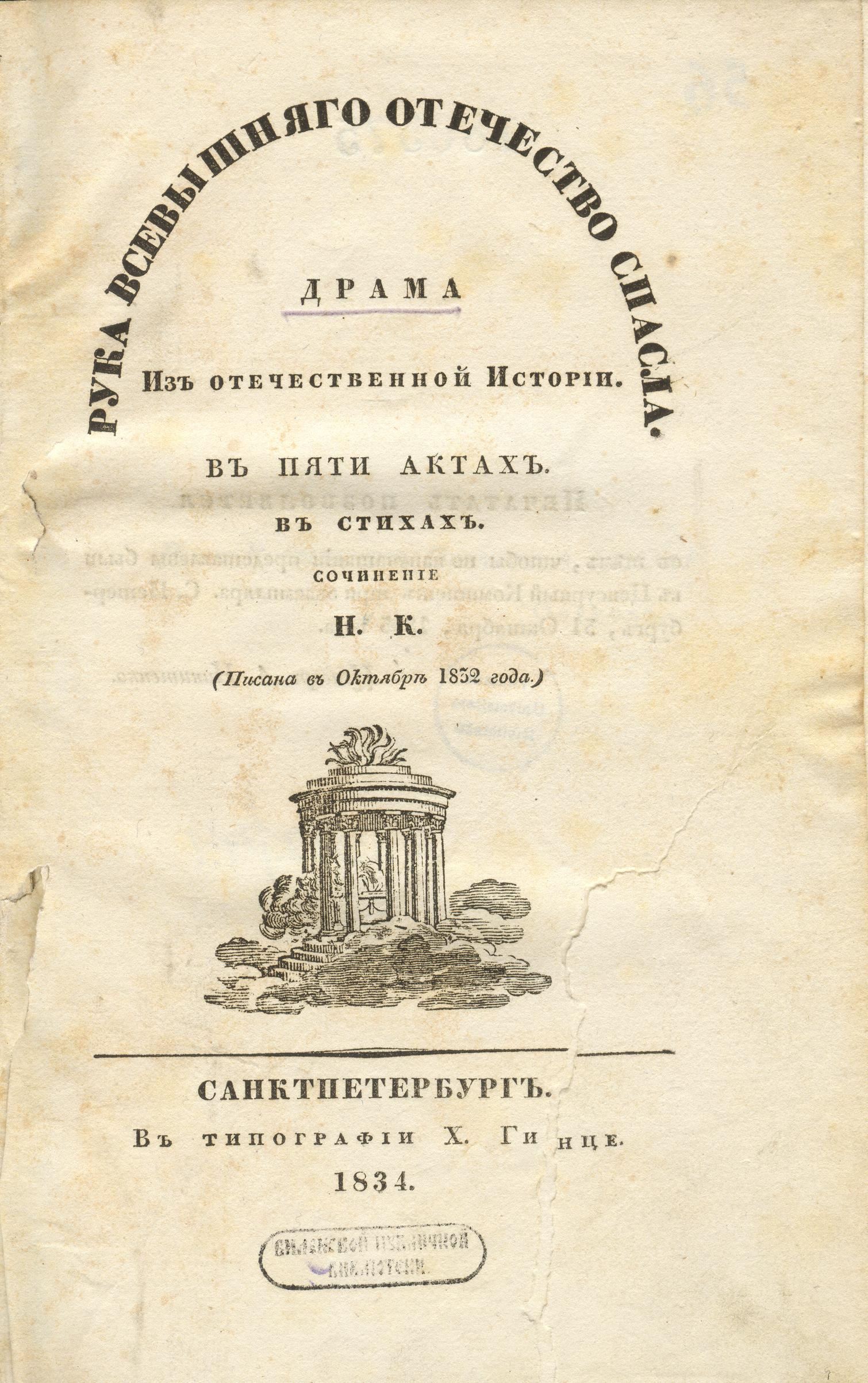 Cover of first edition of drama "Ruka Vsevishnego Otechestvo Spasla" (The God’s Hand Saved The Motherlandd) by Russian writer Nestor Kukolnik (1809-1868) Scan by Alma Pater 06:02, 22 December 2006 (UTC)